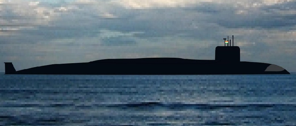 Computer Graphics of of INS Arihant class submarine